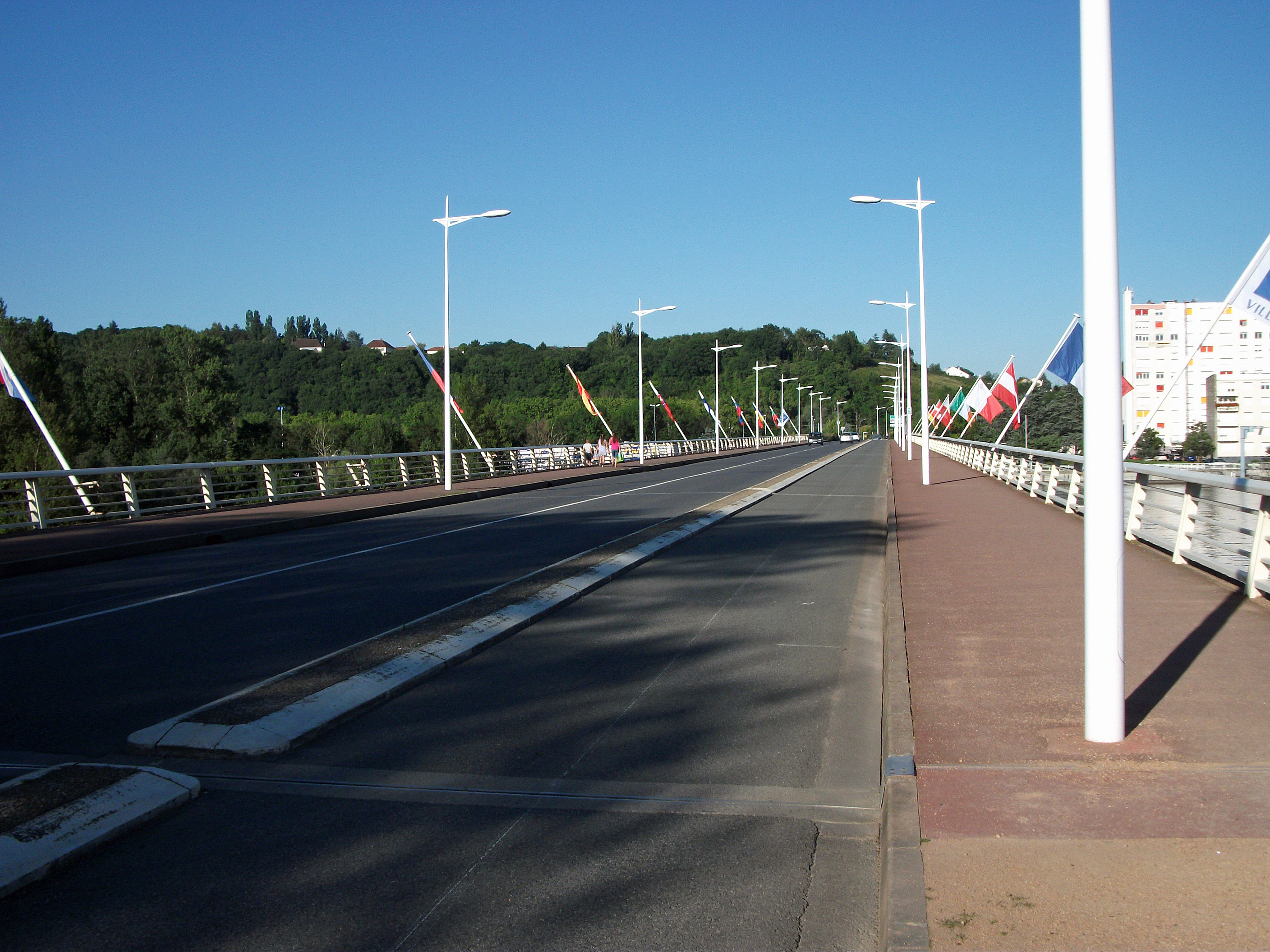 Roadway of the Pont de l'Europe from left side of the Allier river, on the departmental road 6E, towards Vichy.